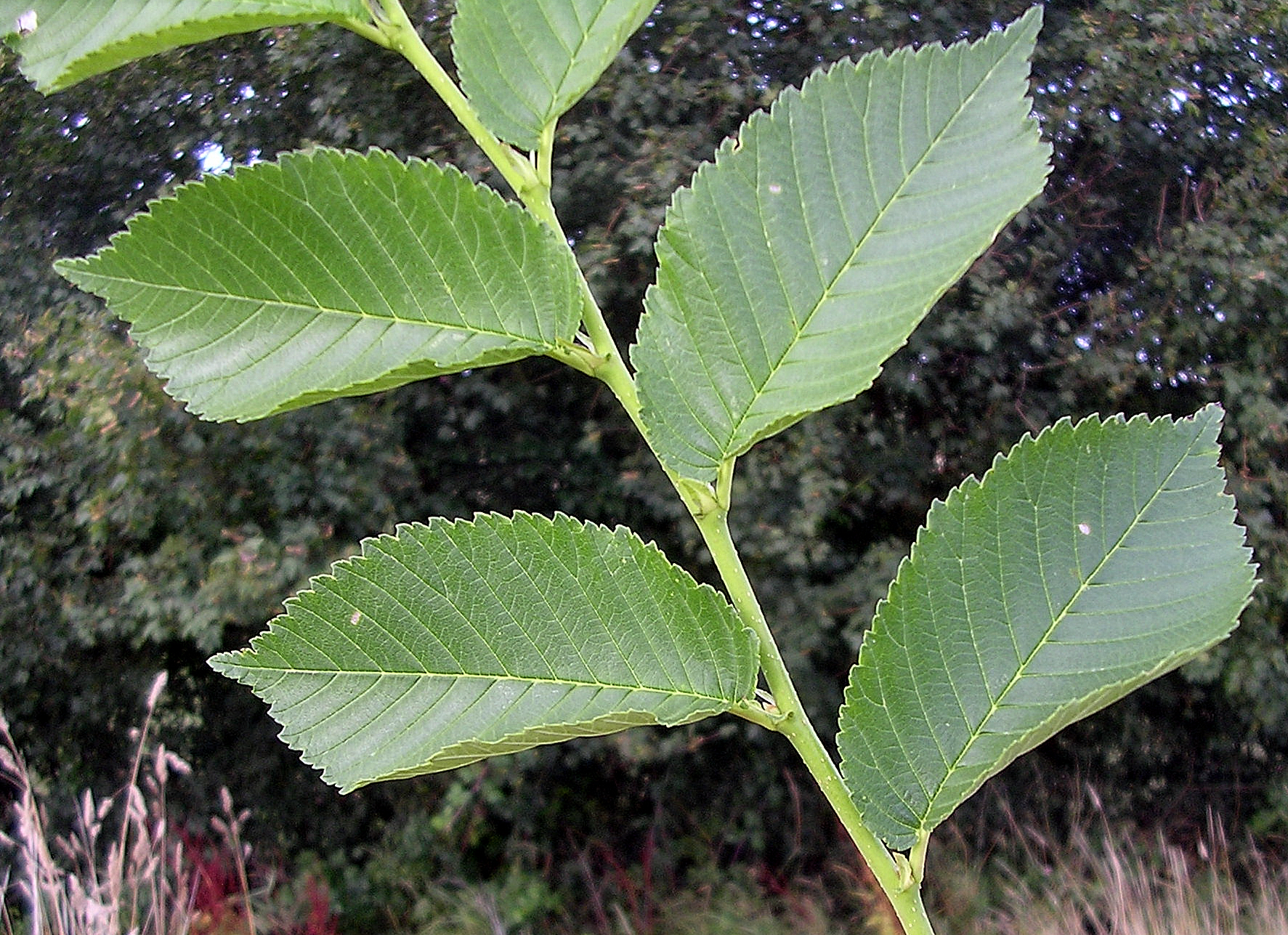 Ulmus 'Plinio' leaves. Photo taken by author, July 2006